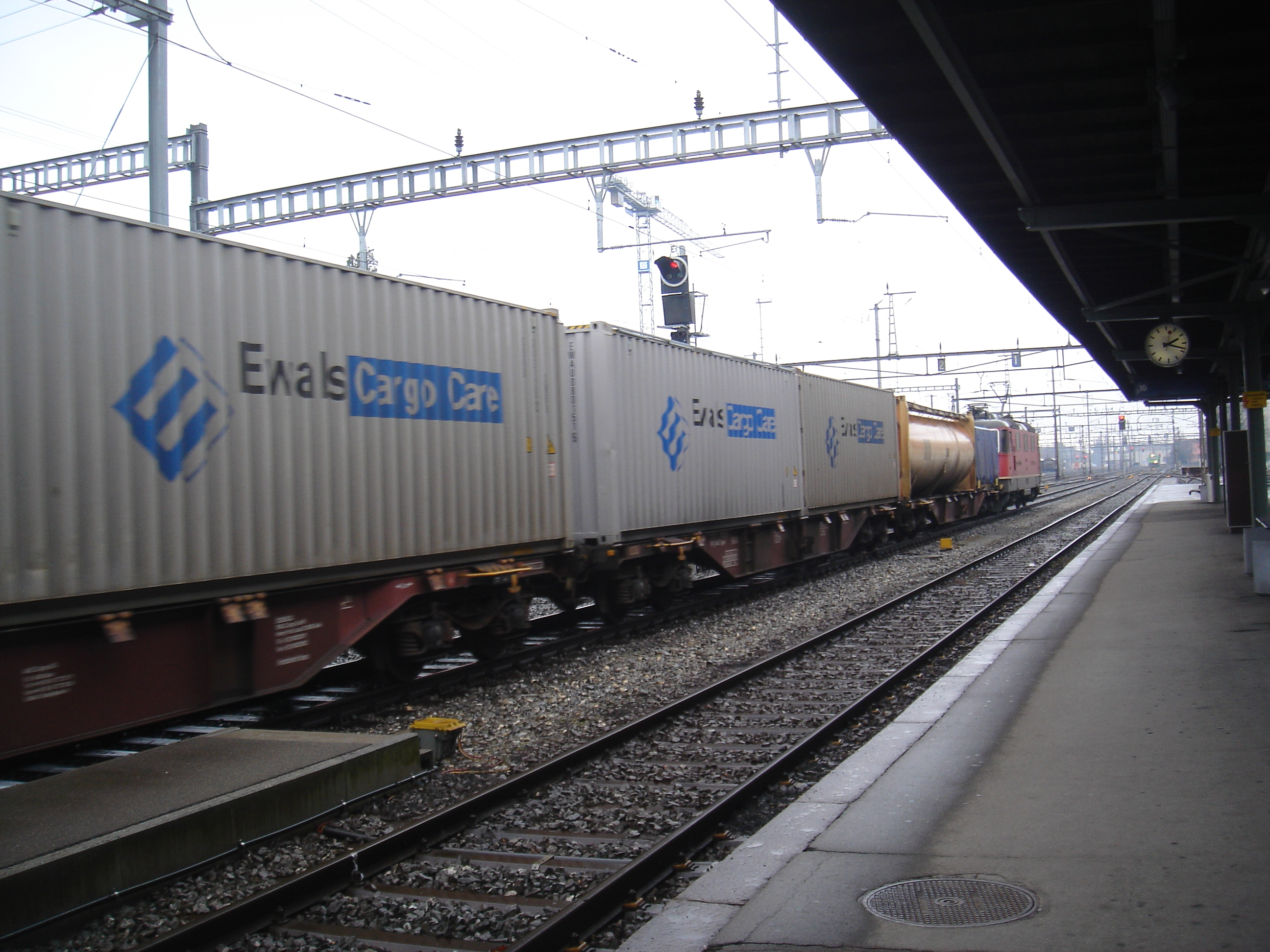 A container train pulled by two Crossrail Re 436 leaves Thun station with leased SBB Re 4/4 II 11290 as banker.